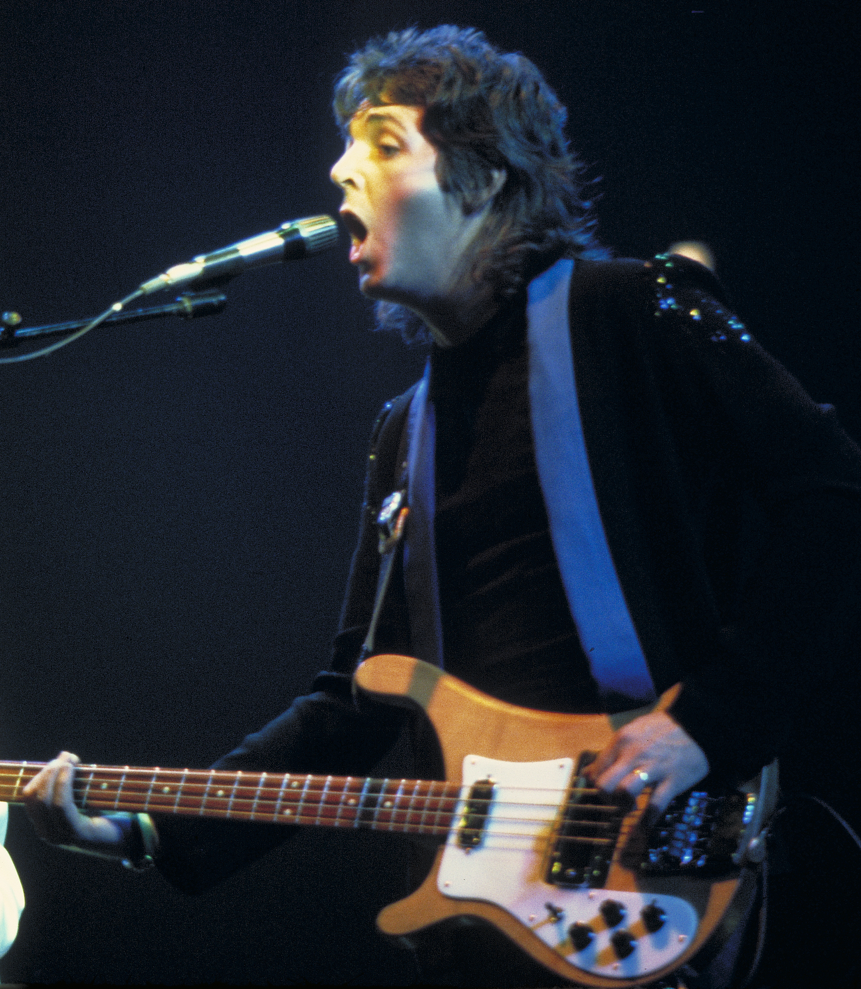 Paul McCartney during a Wings concert.